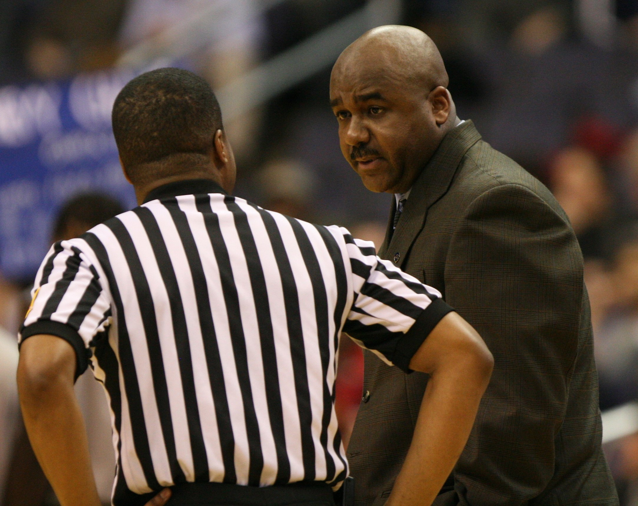 John Thompson III talks with a referee at a game against the Oral Roberts Golden Eagles